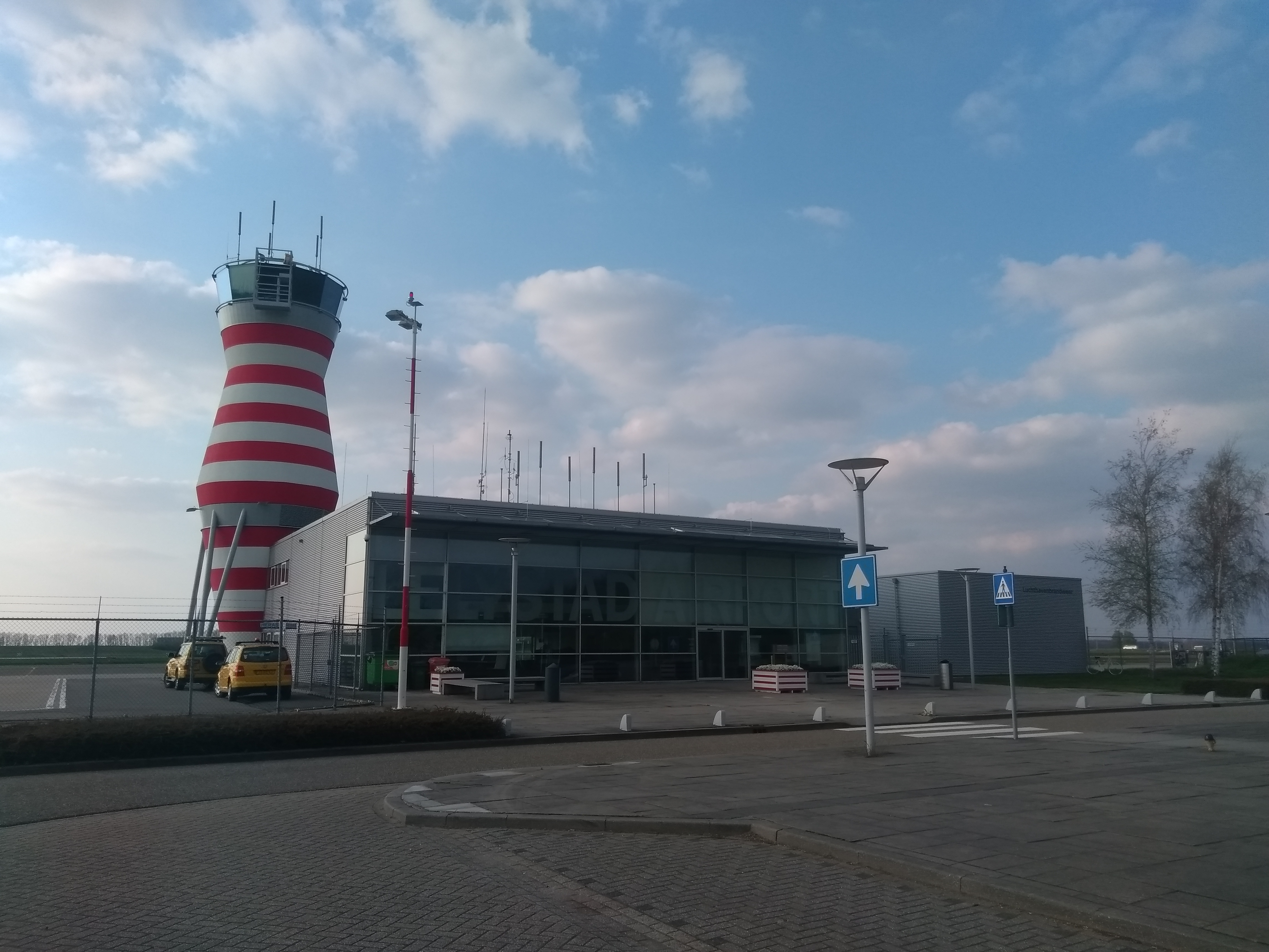 Lelystad Airport with the newer and higher control tower and the lobby